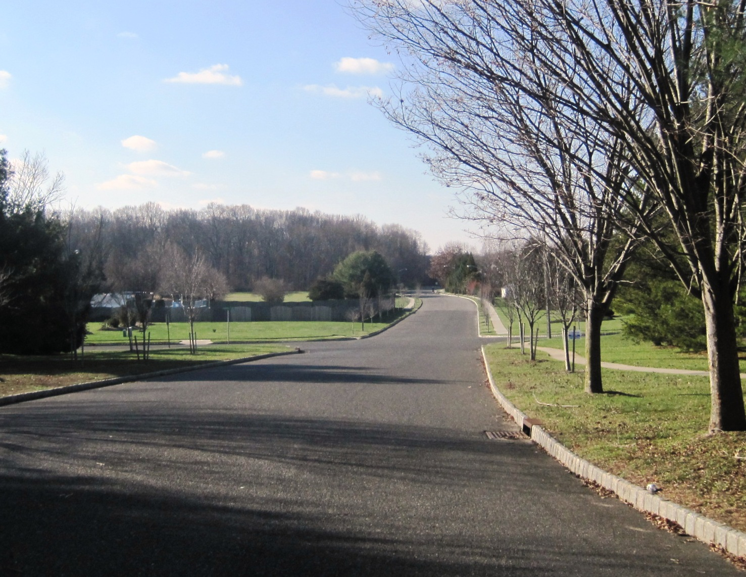 Photo of Hillside Terrace, New Jersey, an unincorporated community within Robbinsville Township. Photo taken Ivanhoe Drive west of County Route 526.